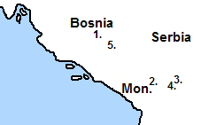 Made by myself.